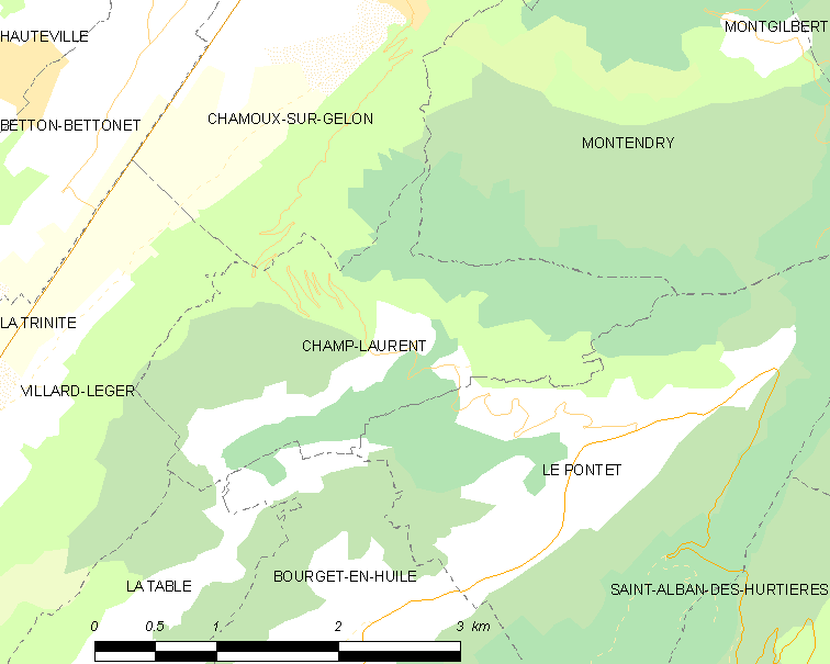 Map of French municipality